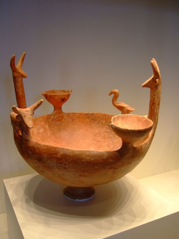 Red Polished Ware. The Philia culture (or Philia group) existed on the island of Cyprus in the Middle and Late Bronze Age between 2400 and 1600 BC.. Photographed at the Getty Villa in Malibu, California.